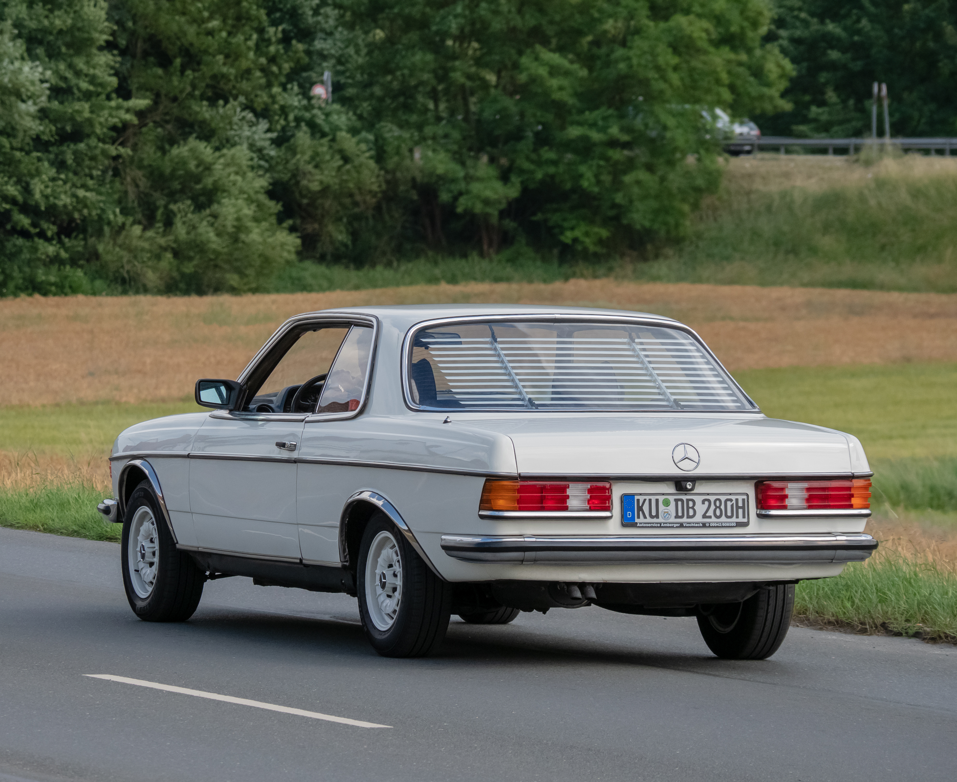 Mercedes-Benz 280CE (C123) at the Kulmbach 2018 Oldtimer Meeting